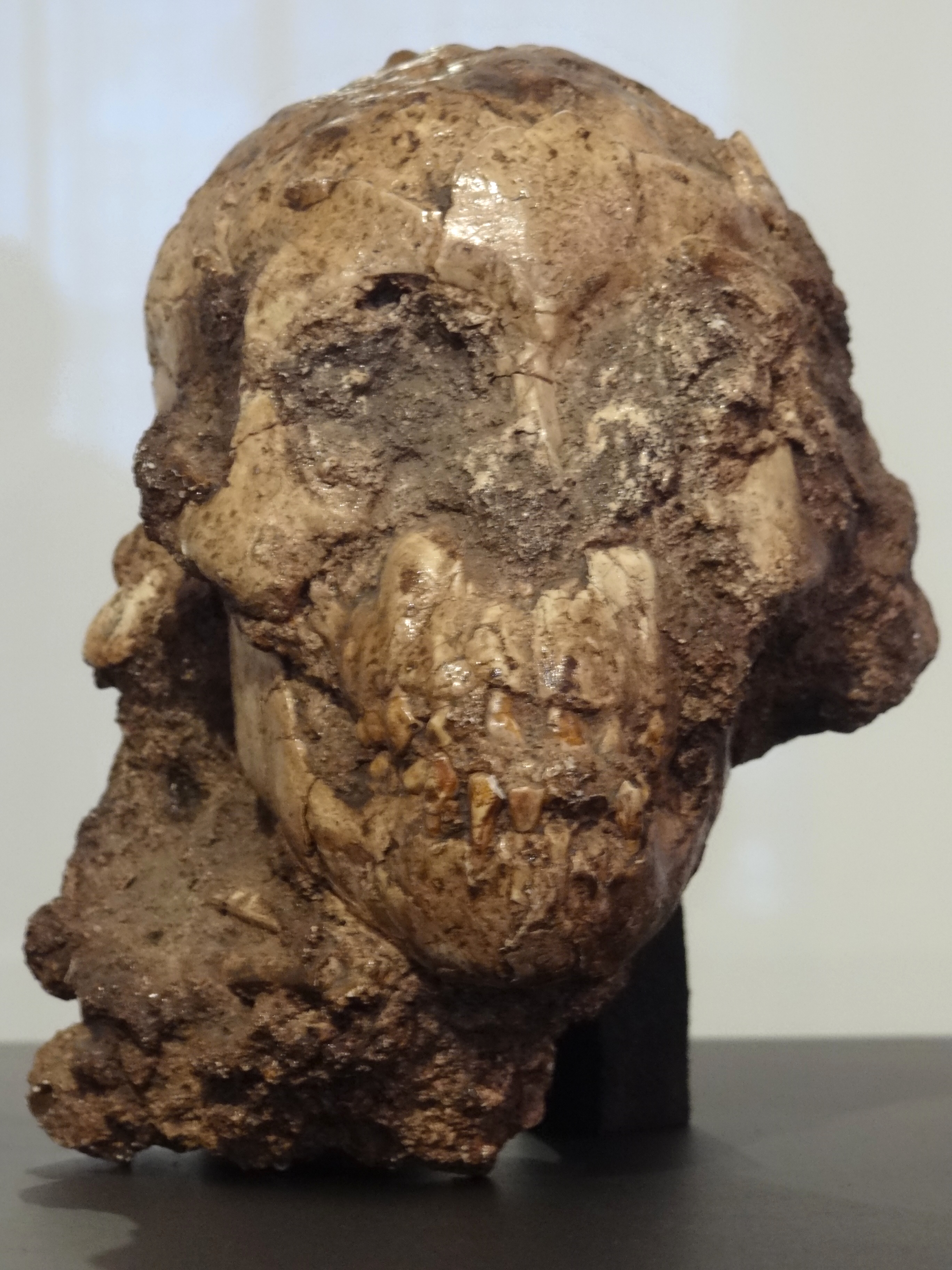 Replica of Skull of Child of Australopithecus Afarensis - 3.3 Million Years Old - National Museum of Ethiopia - Addis Ababa - Ethiopia